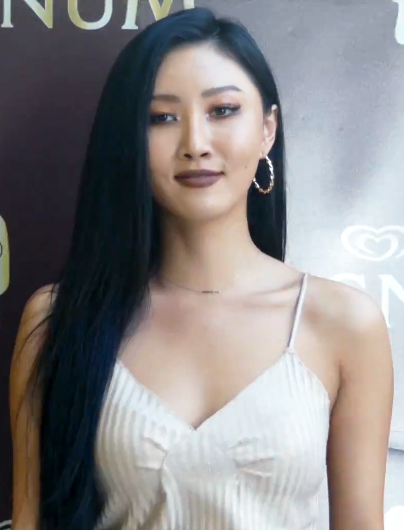 Hwasa at the MAGNUM Ice Cream Pleasure Store opening on 15 June 2018